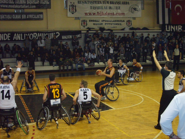 Galatasaray SK - Beşiktaş JK Wheelchair Basketball Match Feb 18, 2007